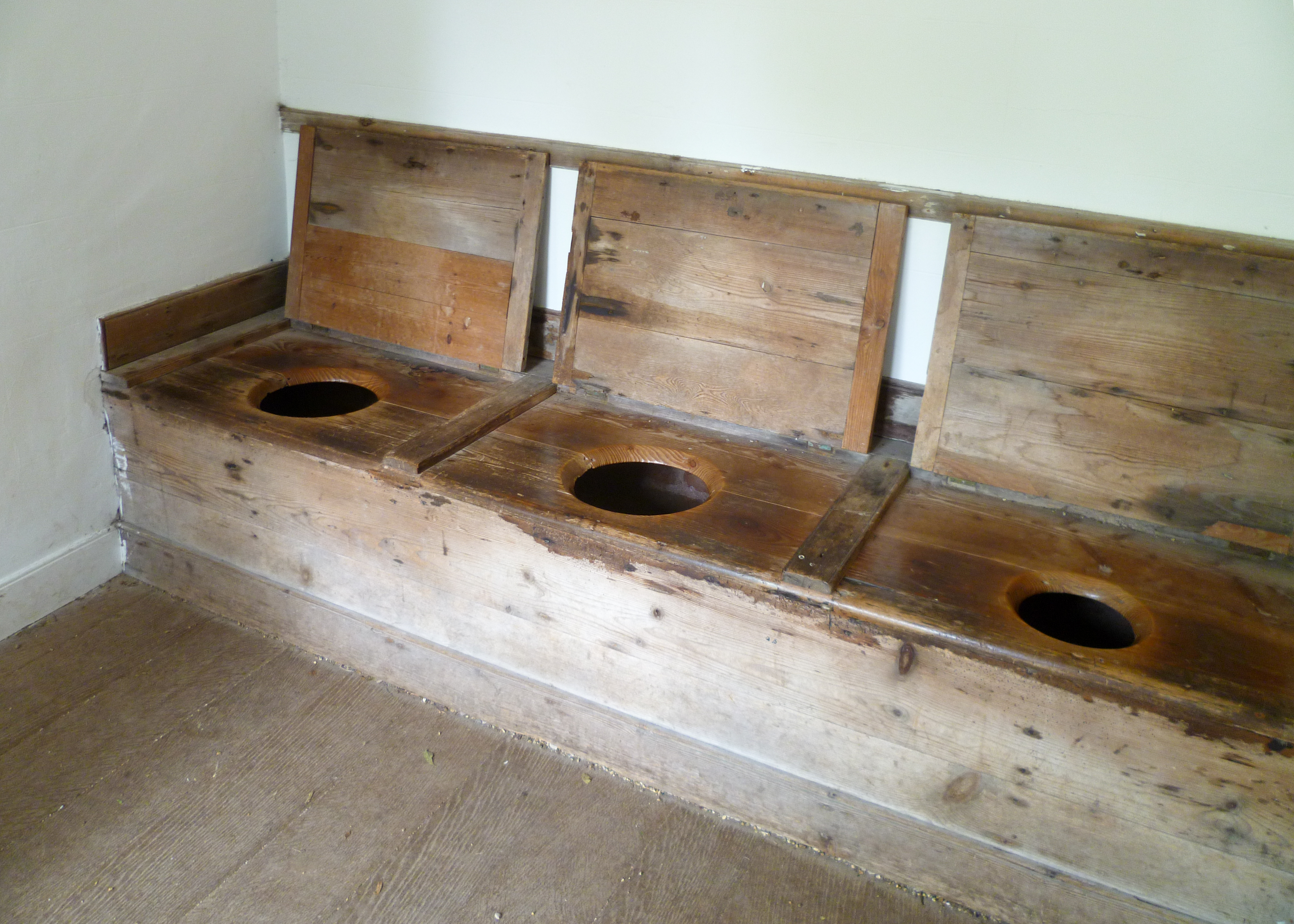 Inside the early 18th century privy from Townsend House, Leominster, showing the 3-seat earth closet. Preserved in the Avoncroft Museum of Historic Buildings, Worcestershire.